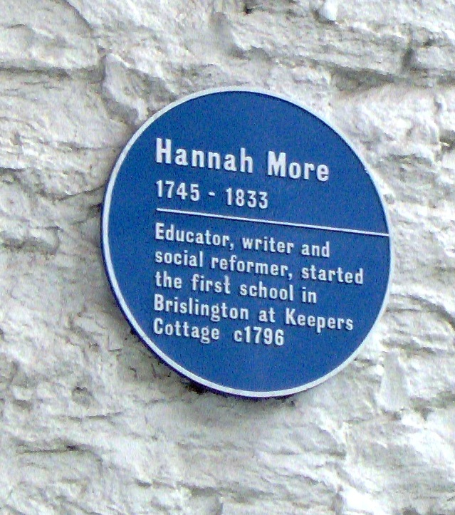 Blue Plaque for Hannah More on Keepers Cottage, Brislington.